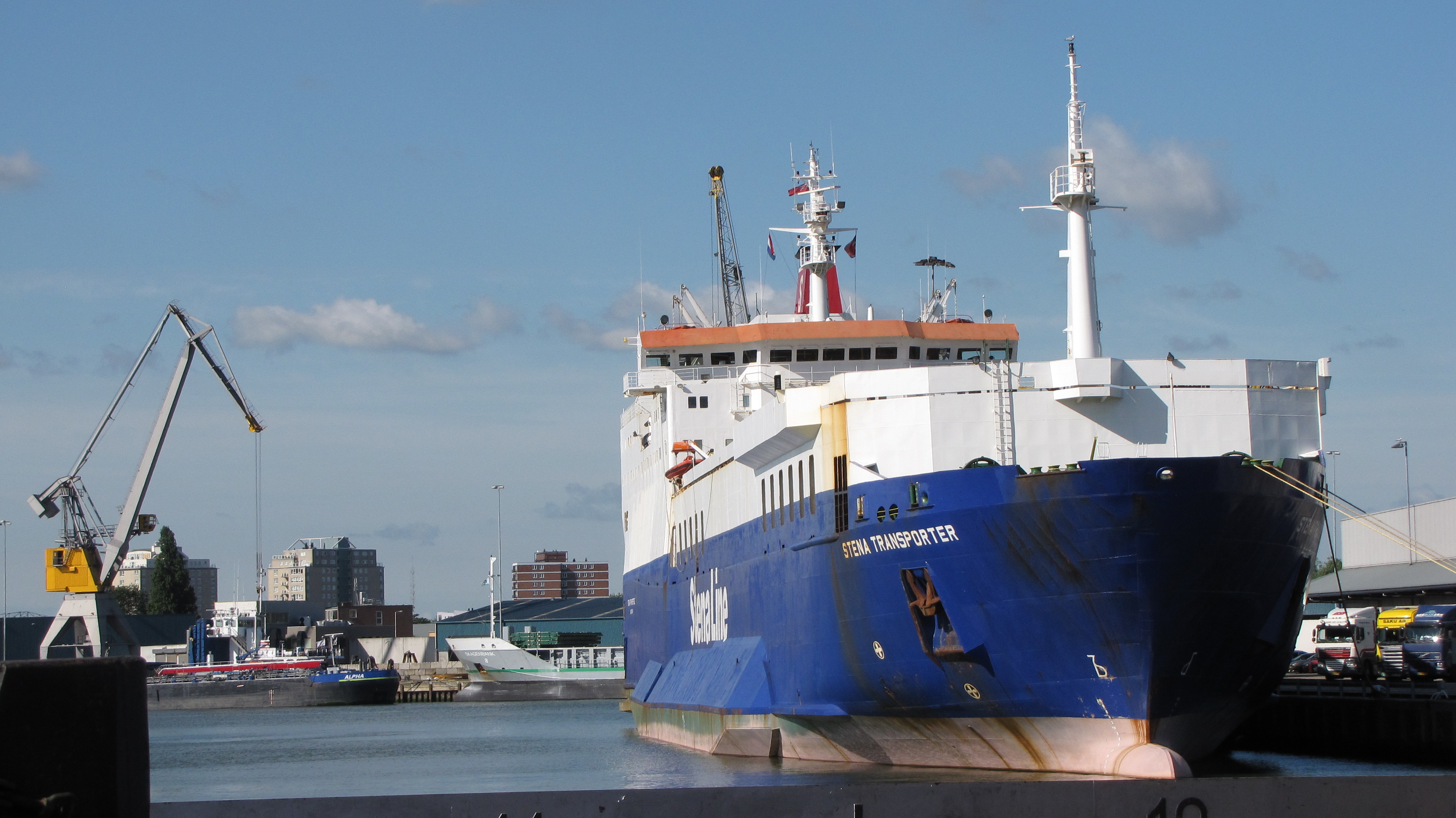 British passenger cargo ship M/S Stena Transporter in Port of Rotterdam, The Netherlands IMO Number: 7528659